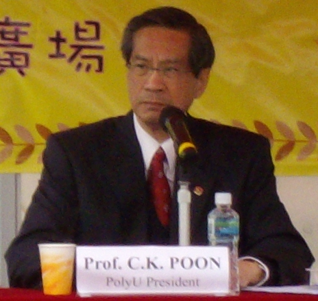 This photo is taken by User:Itsmine, with camera model :PENTAX Optio E30, and double licensed as cc-by-sa-3.0/2.5/2.0/1.0 or GFDL. It has been modified by Gimp, thus the metadata information is lost.